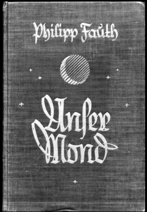 Cover of the book Unser Mond (Our Moon) by Philipp Johann Heinrich Fauth (1867-1941)